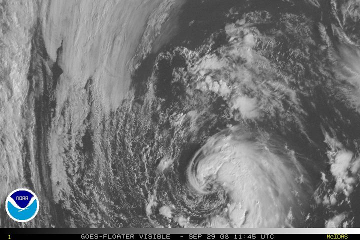 Subtropical Storm Laura on September 29